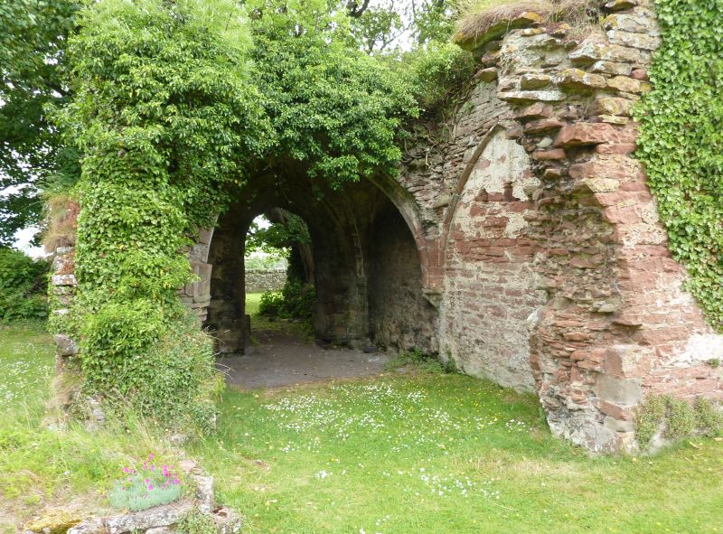 Lindores Abbey, near Newburgh, Fife, Scotland